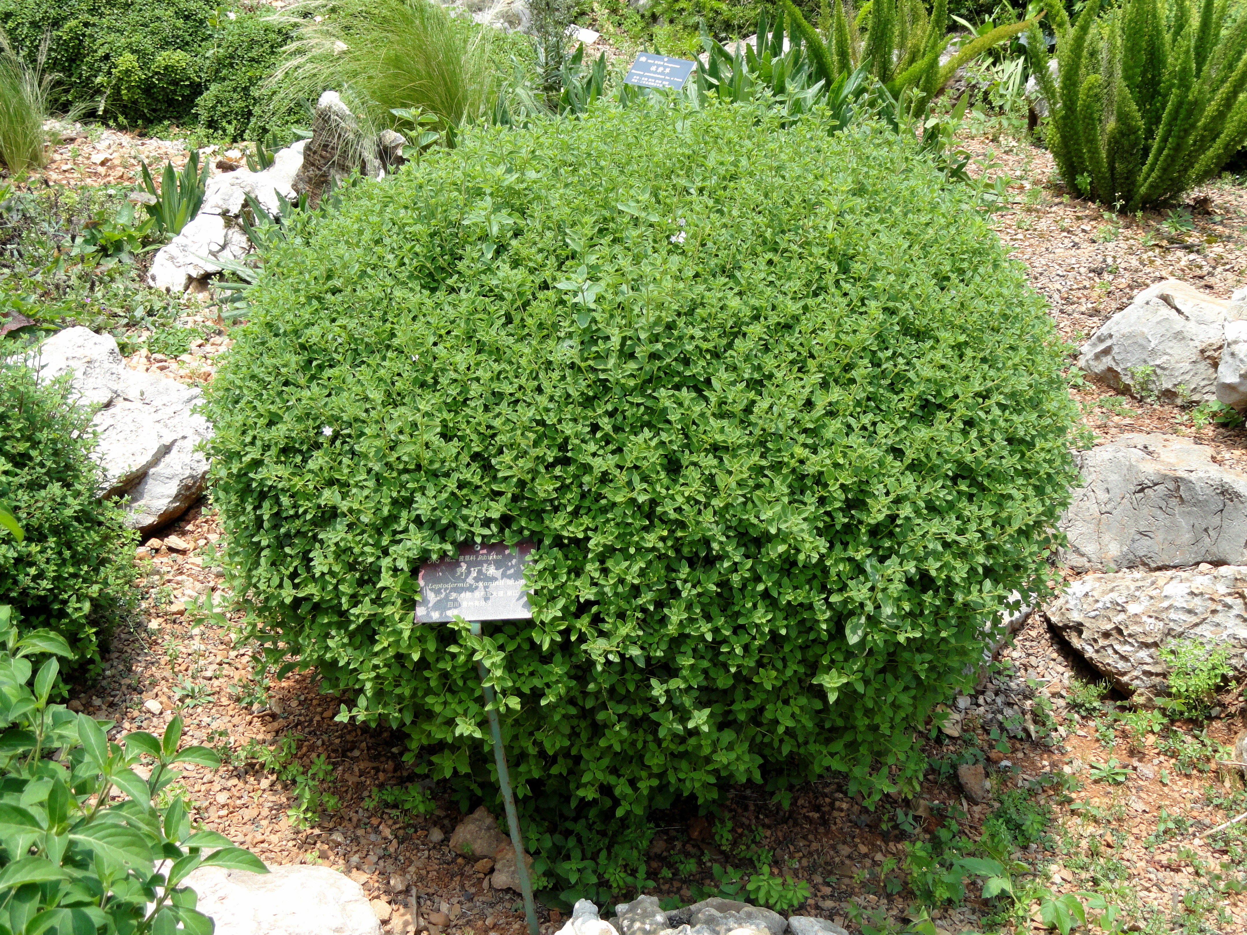 Plant specimen in the Kunming Botanical Garden, Kunming, Yunnan, China.